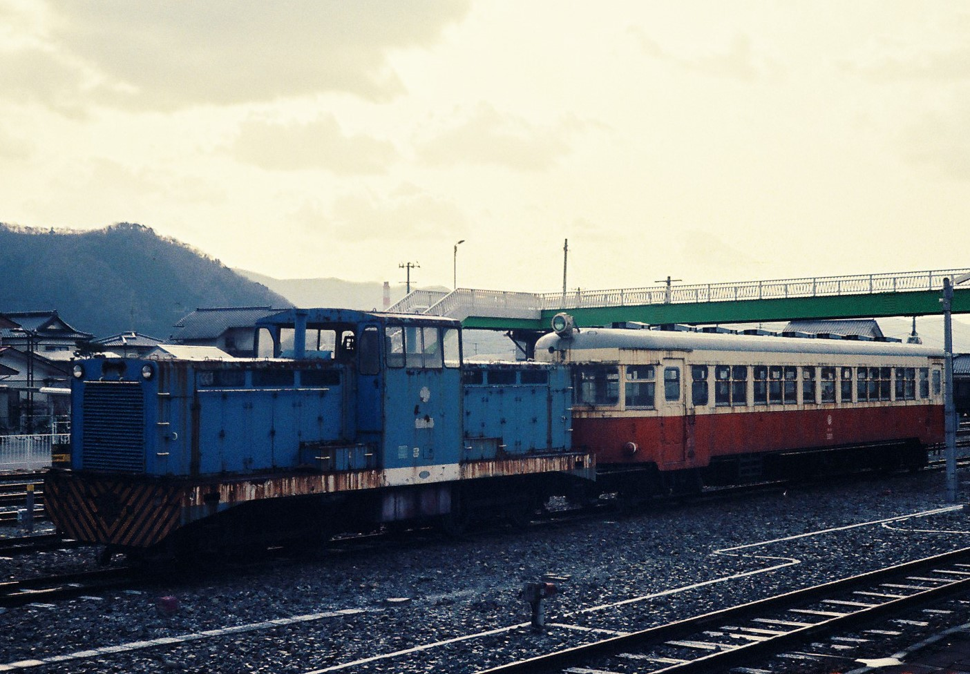 Sakari Station